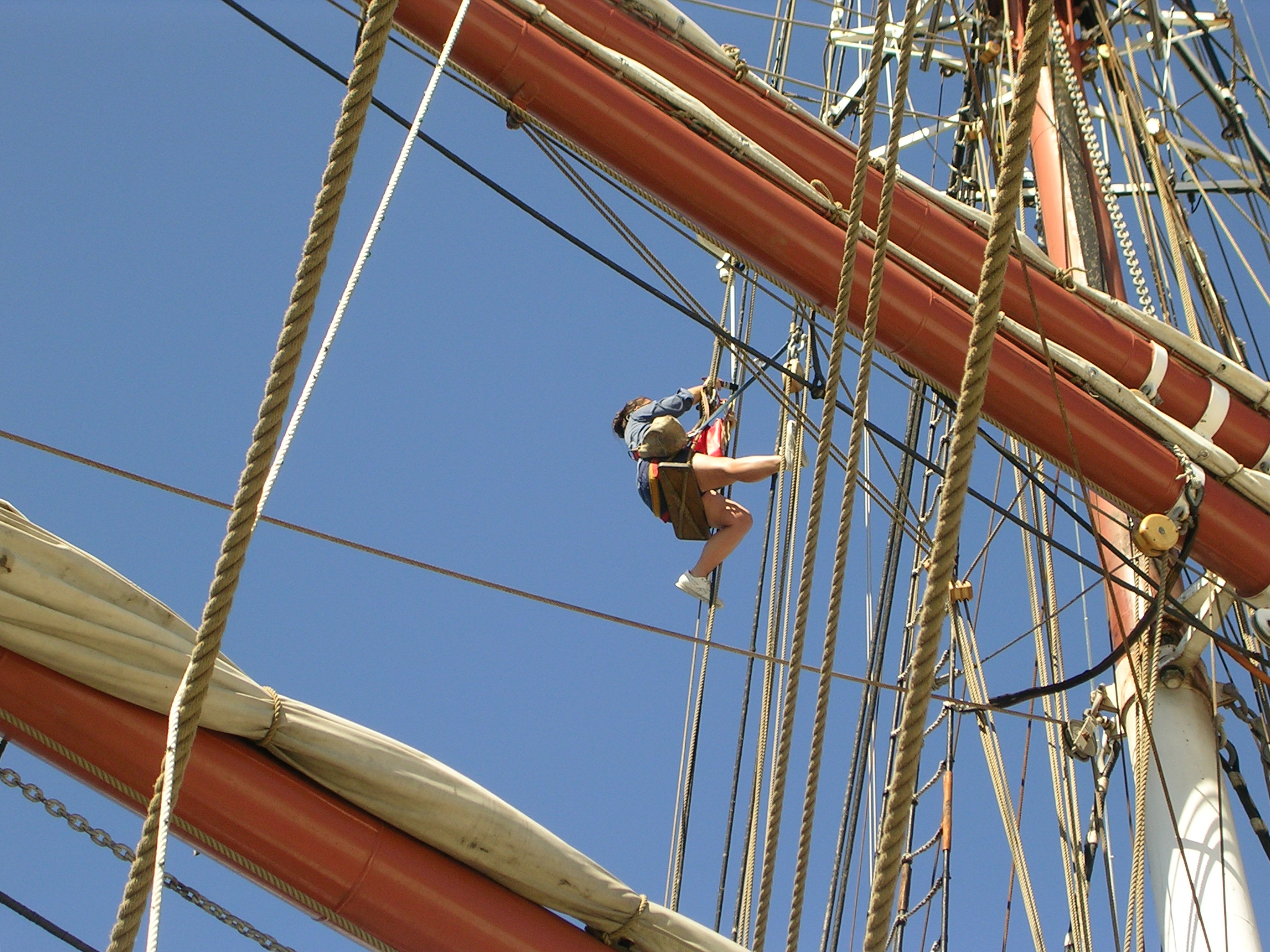 A bosun in a bosun's chair, on the Prince William|Prince William (ship)|Prince William. Photo by Pete Verdon